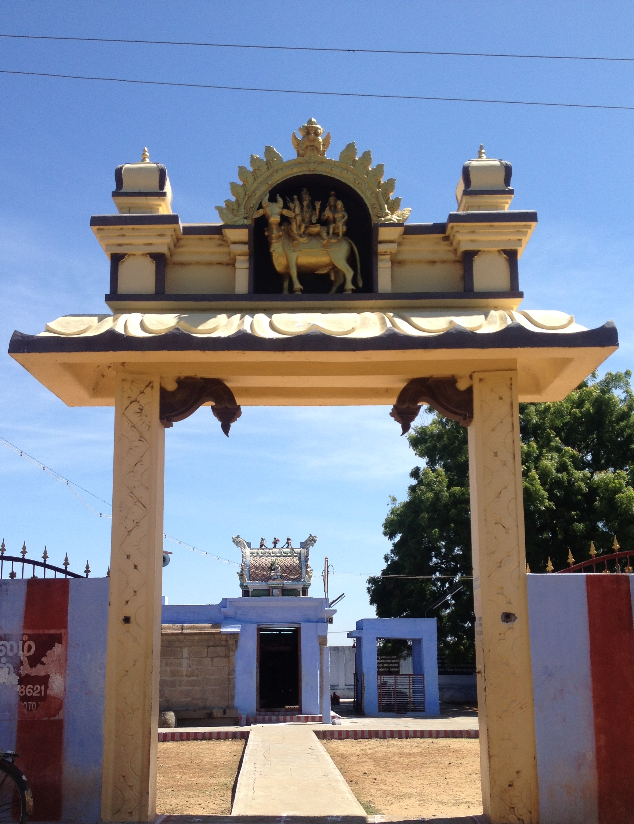 Kodaganallur Kailasanathar Temple main entrance